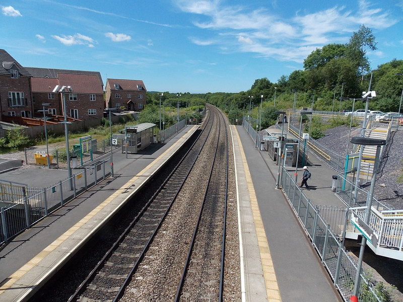 West through Llanharan railway station. Viewed from the station footbridge. Access to and from platform 2 on the left is on flat ground. On the steeper ground on the right, access to and from platform 1 is via either steps or ramps.